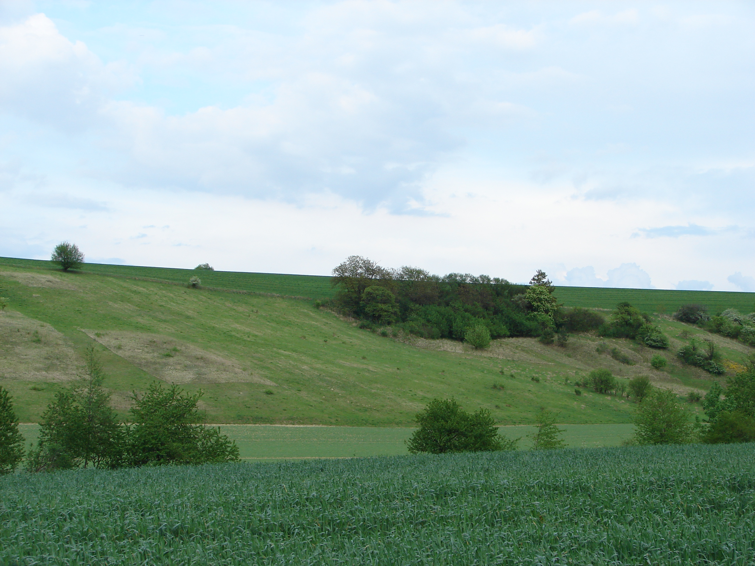 Nature reserve Mušenice in Vyškov District, Czech Republic